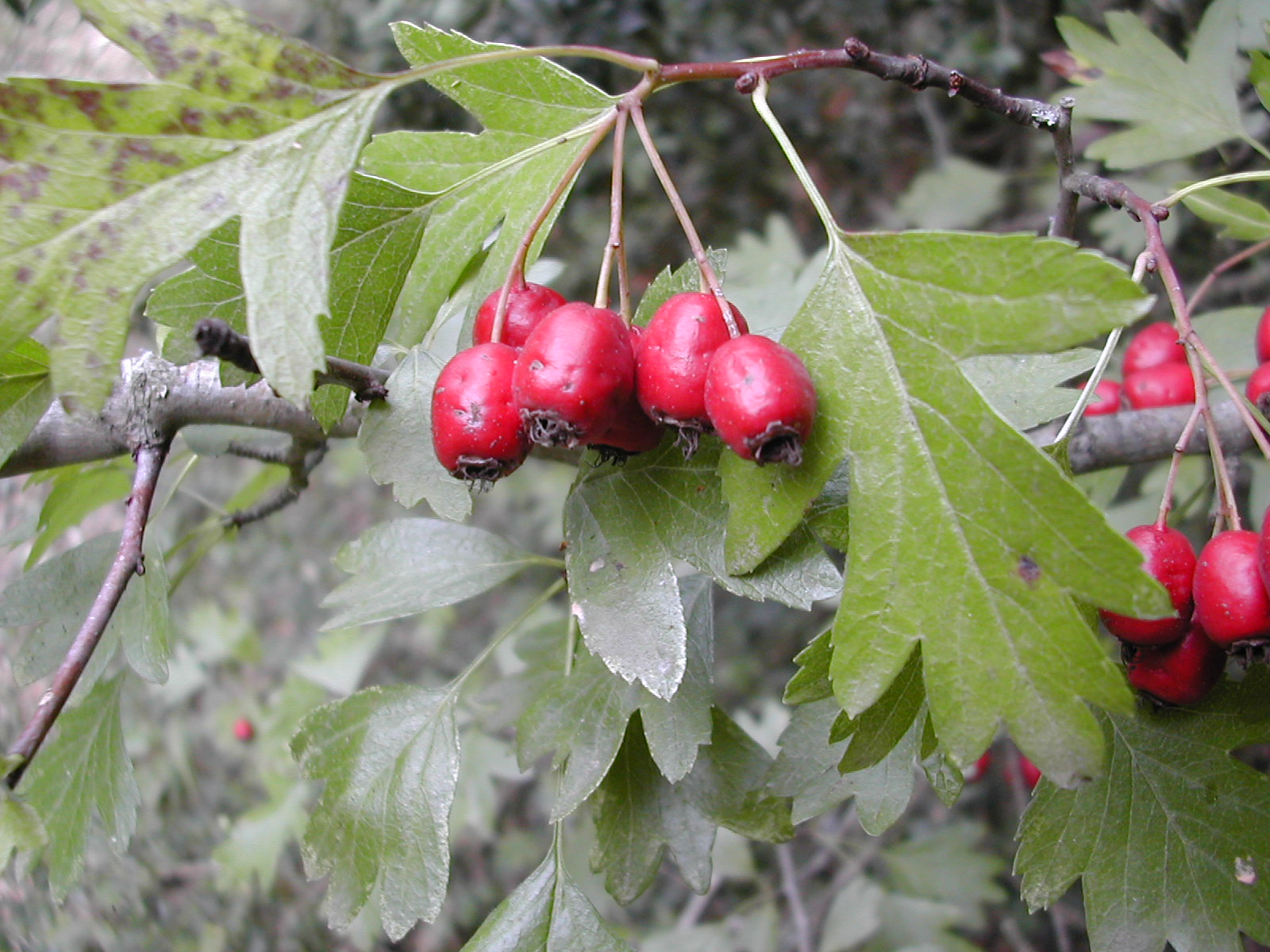 Details of the fruits of Crataegus monogyna